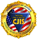 Seal of the National Crime Information Center (NCIC), USA. — “Servicing Our Citizens”